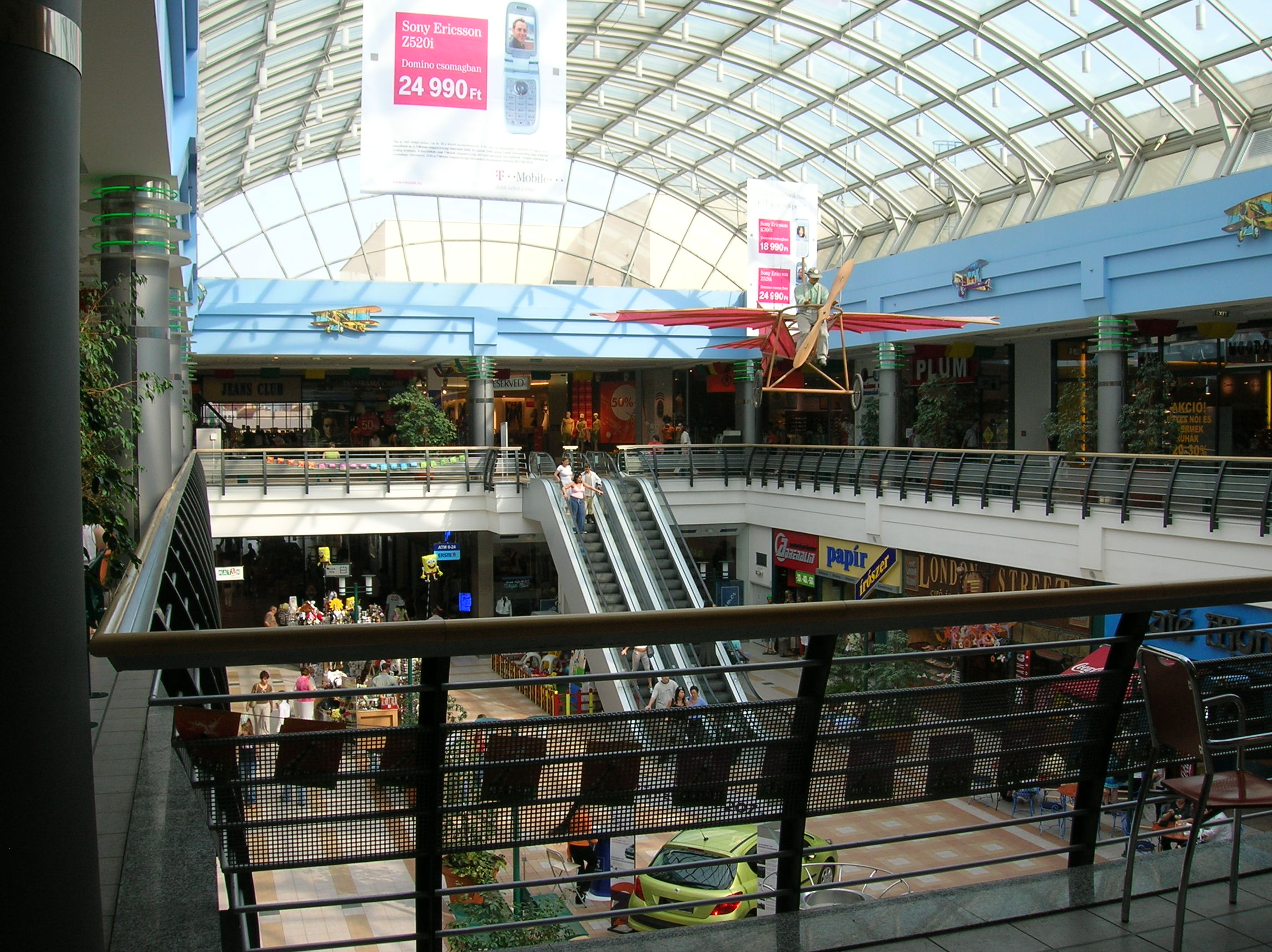 Inside of Miskolc Plaza shopping mall in Miskolc, Hungary.